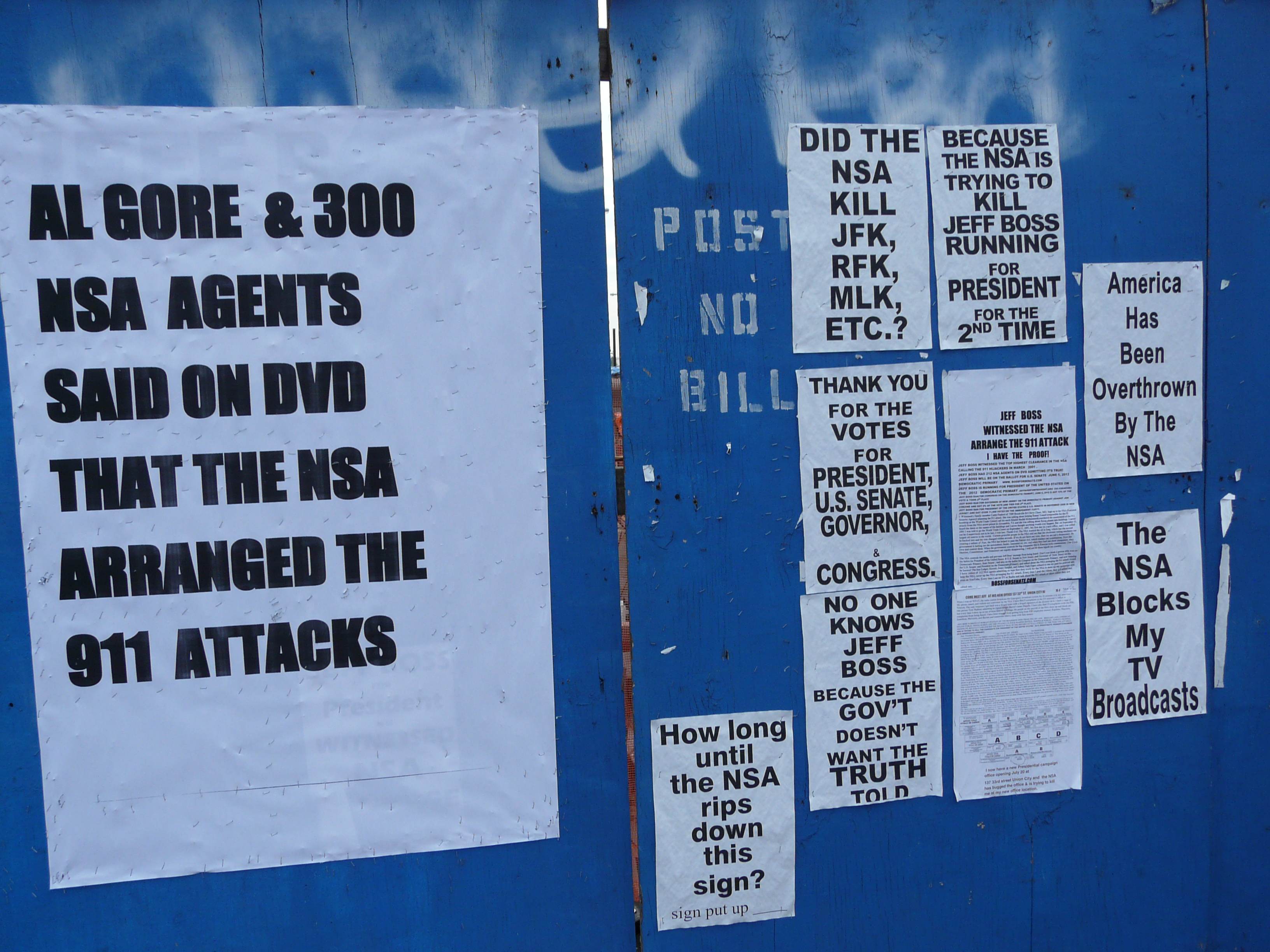 New York, summer of 2011.